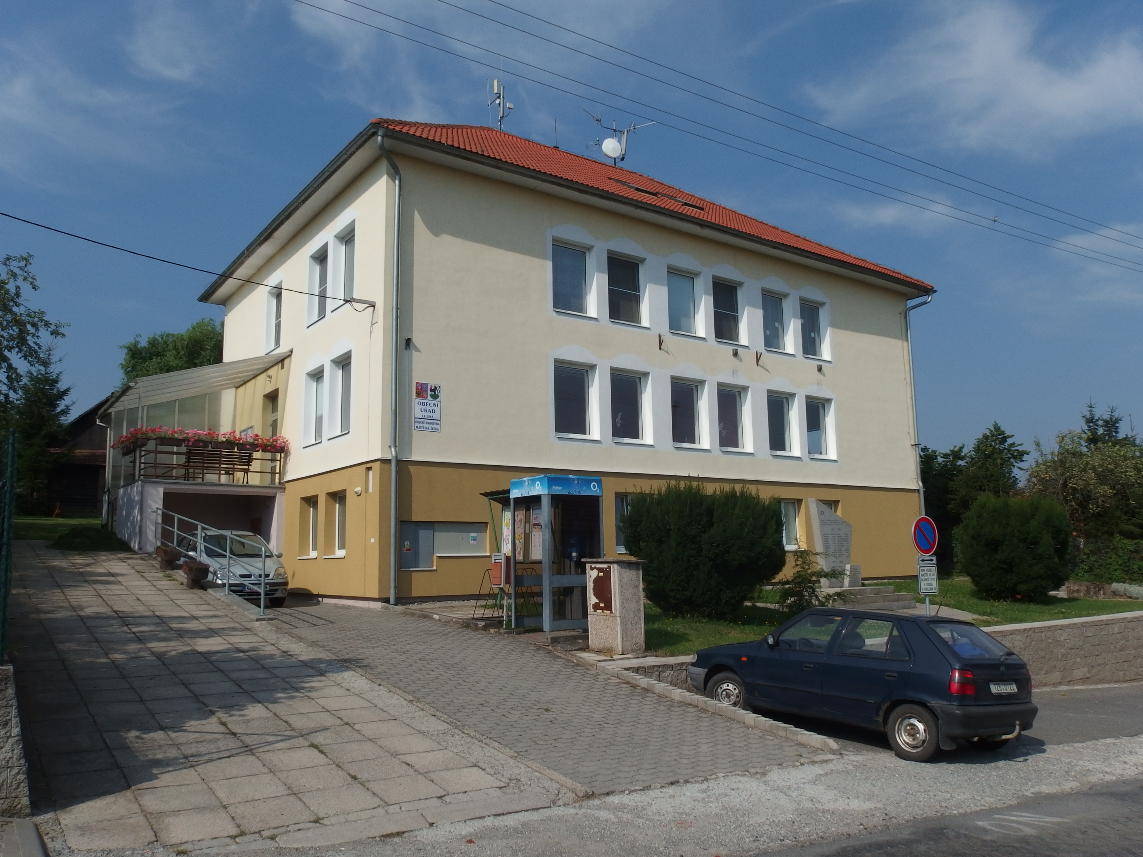 Lubná, Kroměříž District, Czech Republic.